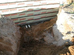 A picture which appears to show heat exchange pipes entering and exiting the ground